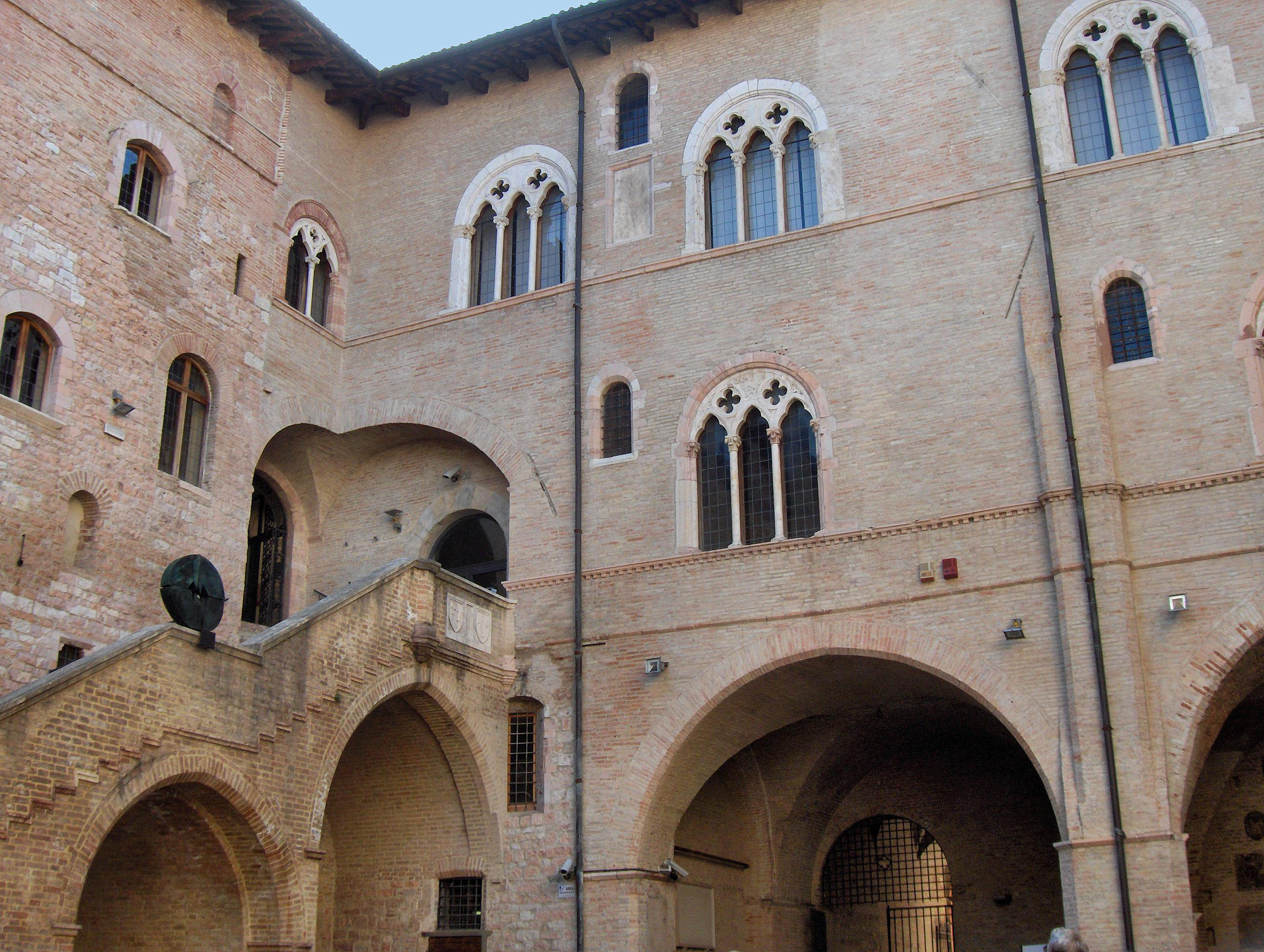 Inner court of the Trinci Palace, Foligno, Italy